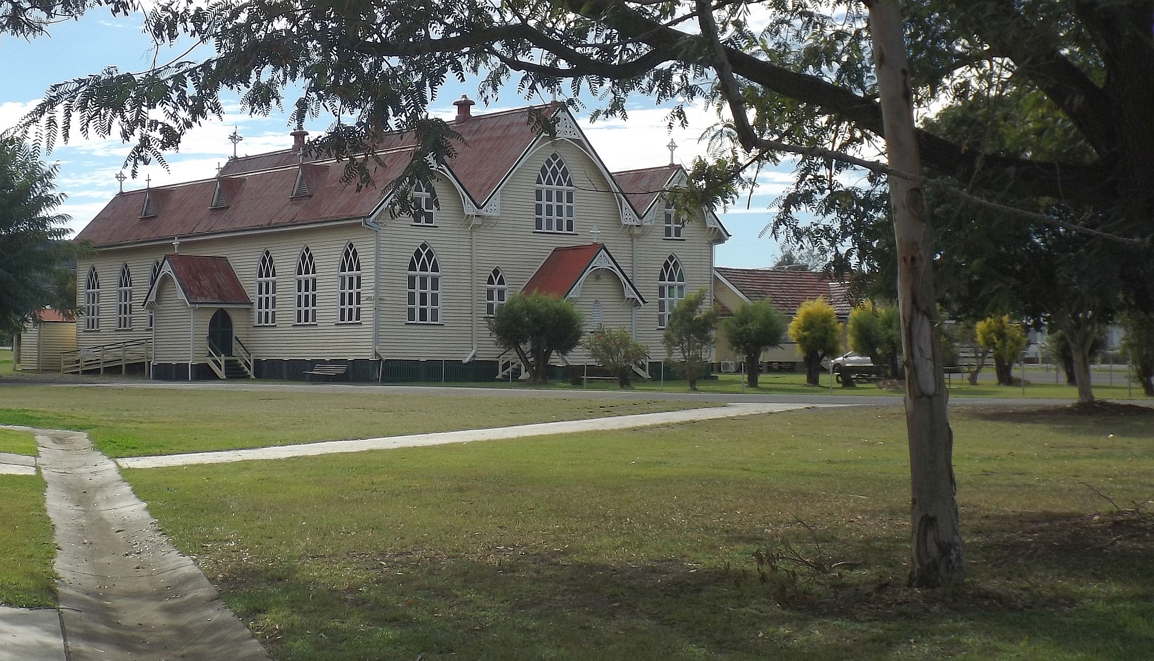 Photo of St Brigids Catholic Church at Rosewood, Ipswich, Queensland, Australia.